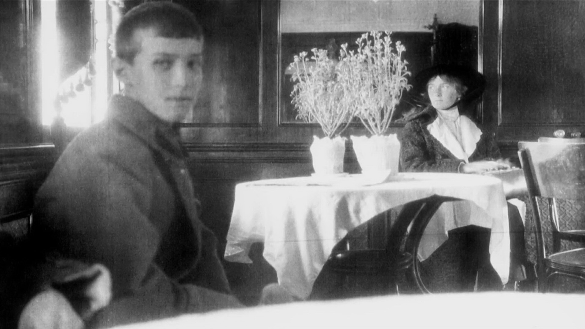 This photograph of Grand Duchess Olga Nikolaevna of Russia and Tsarevich Alexei was taken in May 1918 aboard the Russia, a ship that ferried them from Tobolsk to Yekaterinburg, Russia.It is the last known photograph taken of them. I downloaded the photo from a posting at Because of its age, I think it's probably in the public domain. I have seen it reproduced in other sources and it is of poor quality, so it's not likely to have commercial value. If I am wrong, please delete the photo immediately.